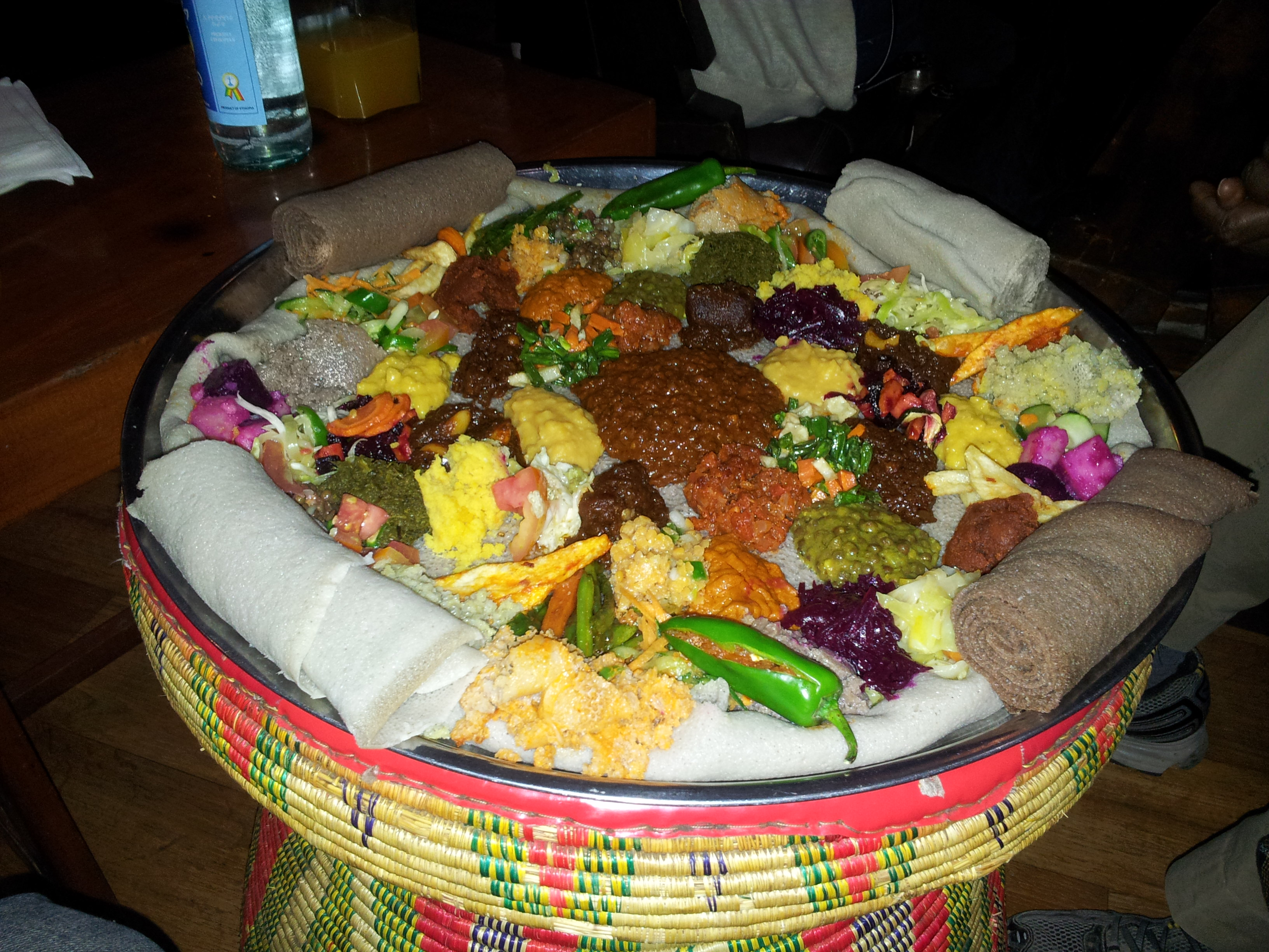 All Vegeterian - 29 selected varieties served in one meal - seved in a traditional resaurant in Addis- TASTING IS TRUSTING - beyond seeing is believing! This is an image of food from Ethiopia